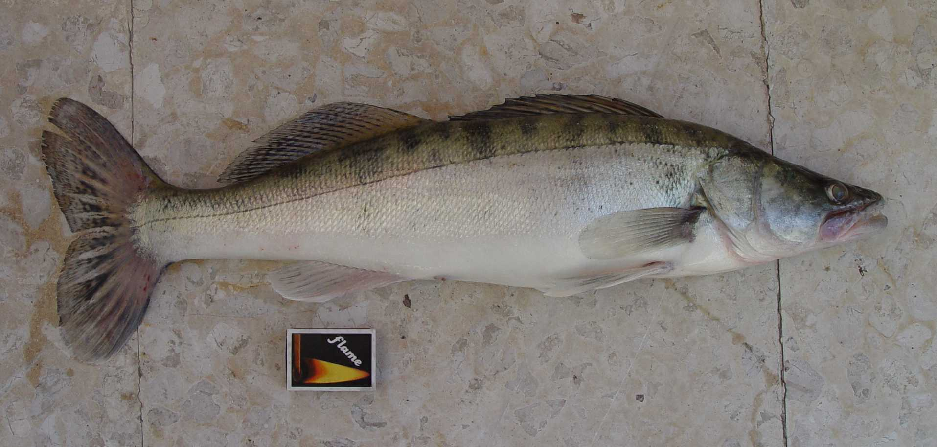 Zander (Stizostedion lucioperca), caught in Cyprus on March 17, 2007